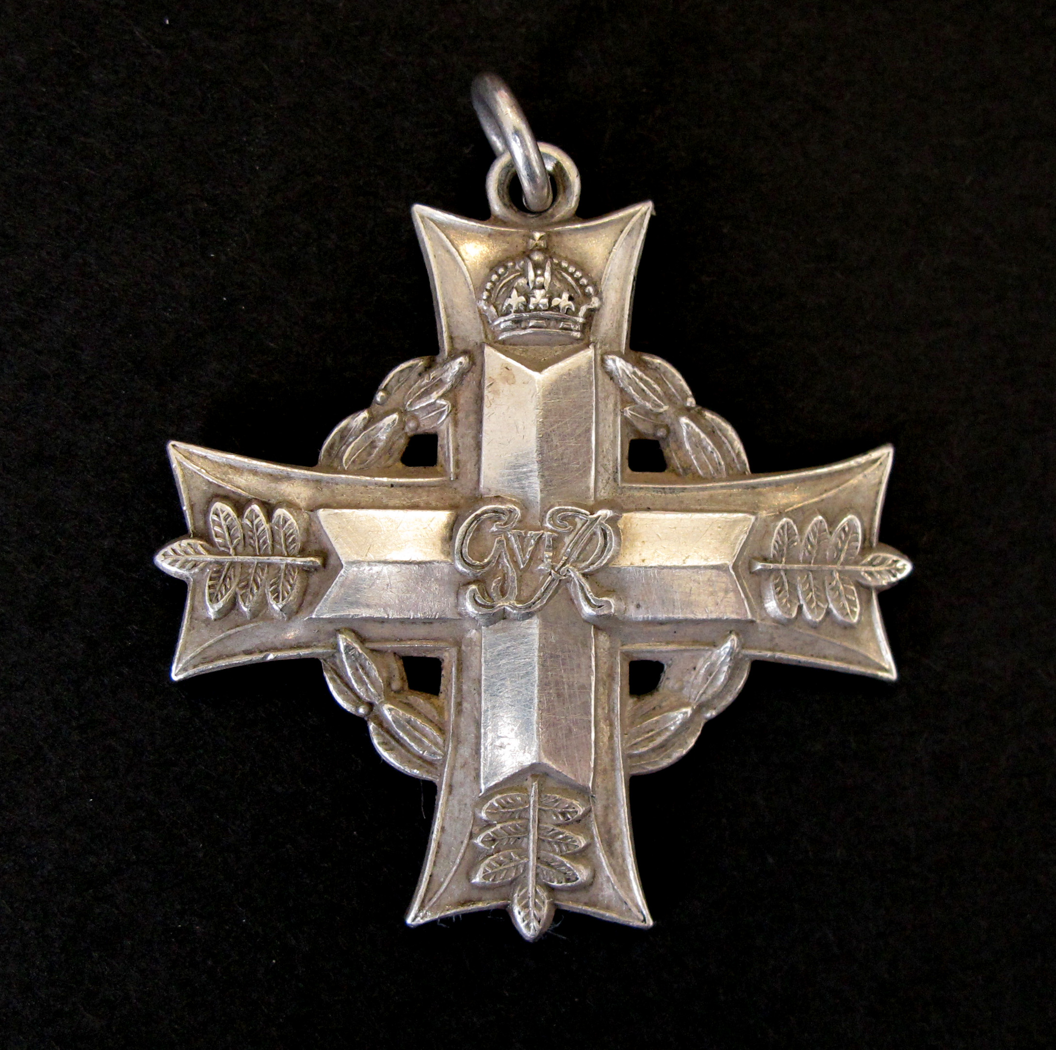 Memorial Cross, WW2 Memorial Cross awarded to next-of-kin of Private Tuhura Hami, 28 (Maori) Battalion who died on active service 19th October 1941 in Greece. a Cross patonce in silver over a laurel wreath, at the end of the upright a crown; at the foot and at the end of either arm a fern leaf; in the centre the royal cipher “GRVI”. Medal originally issued with a purple ribbon missing parts- ribbon markings- medal named verso- 39616 - PTE. T. HAMI silver mark verso- R - STERLING